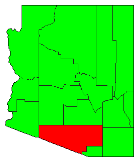 A map of election results by county for Arizona Proposition 102.